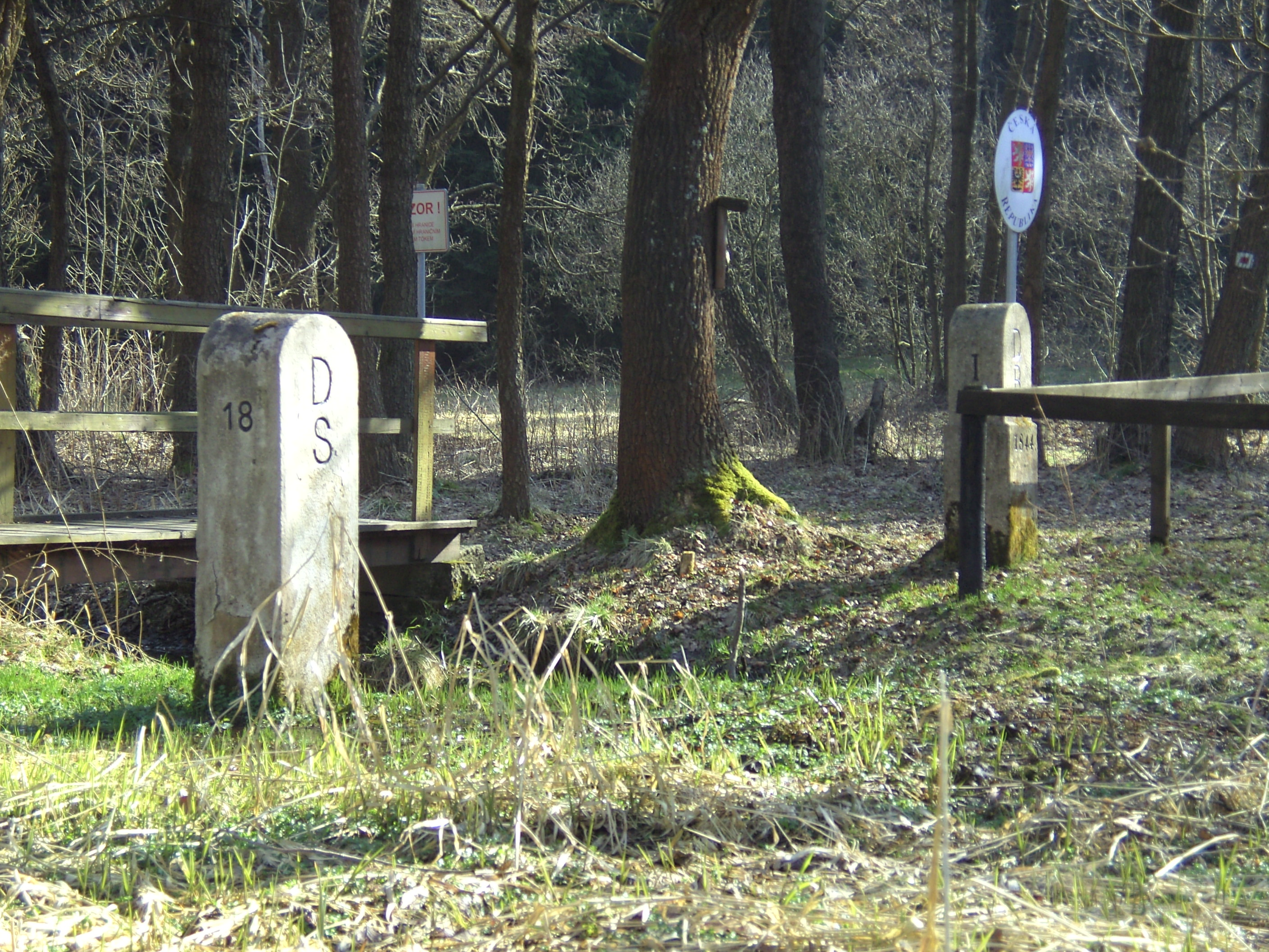 Tripoint Bavaria (former West Germany) - Saxony (former East Germany) - Czech Republic